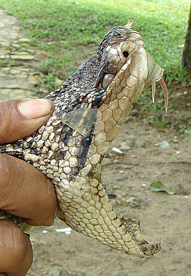 Lachesis muta The largest of the venomous snakes in Colombian Amazon